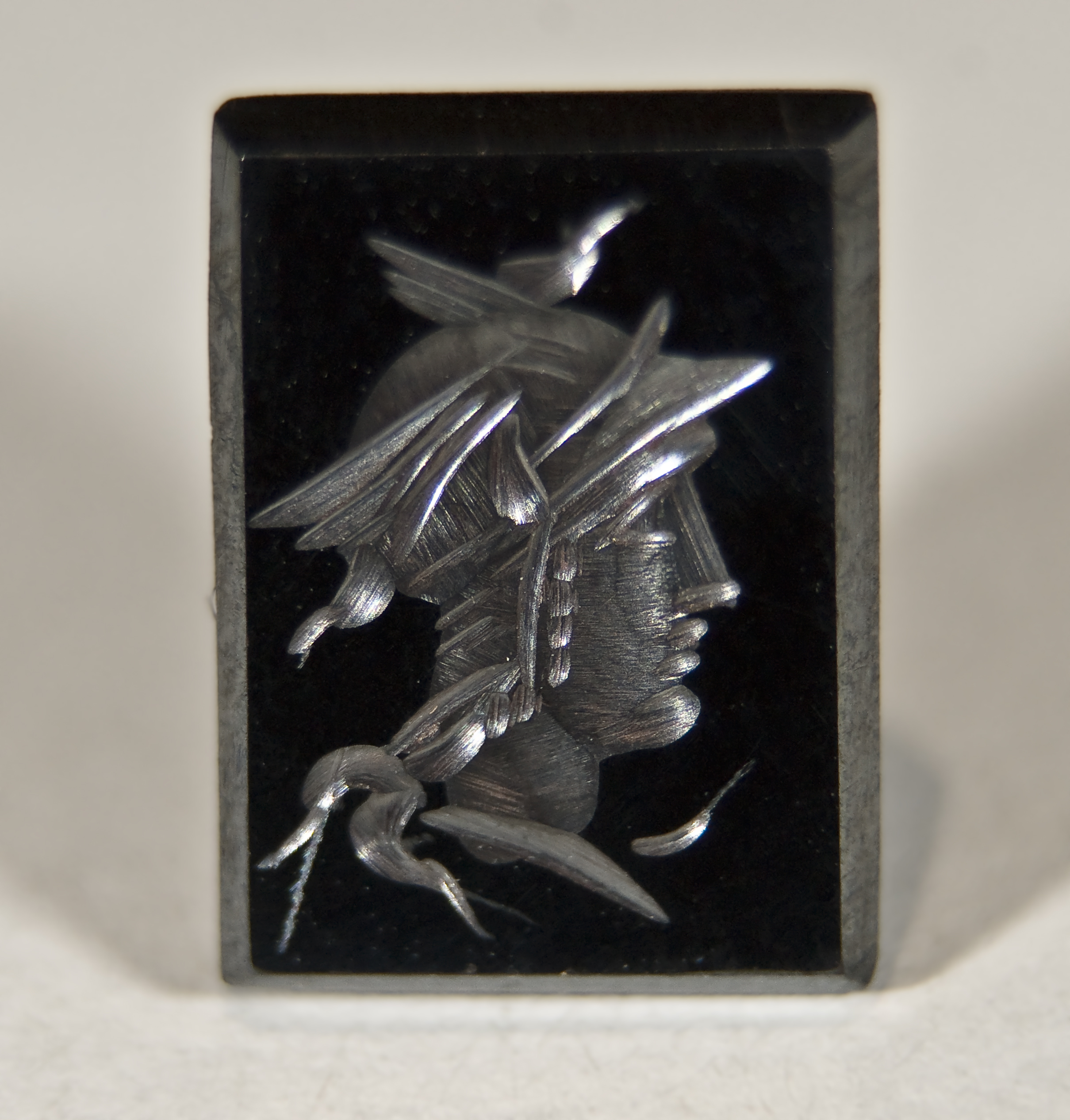 Hematite. Engraving work of 19th century (14 x 10 mm)